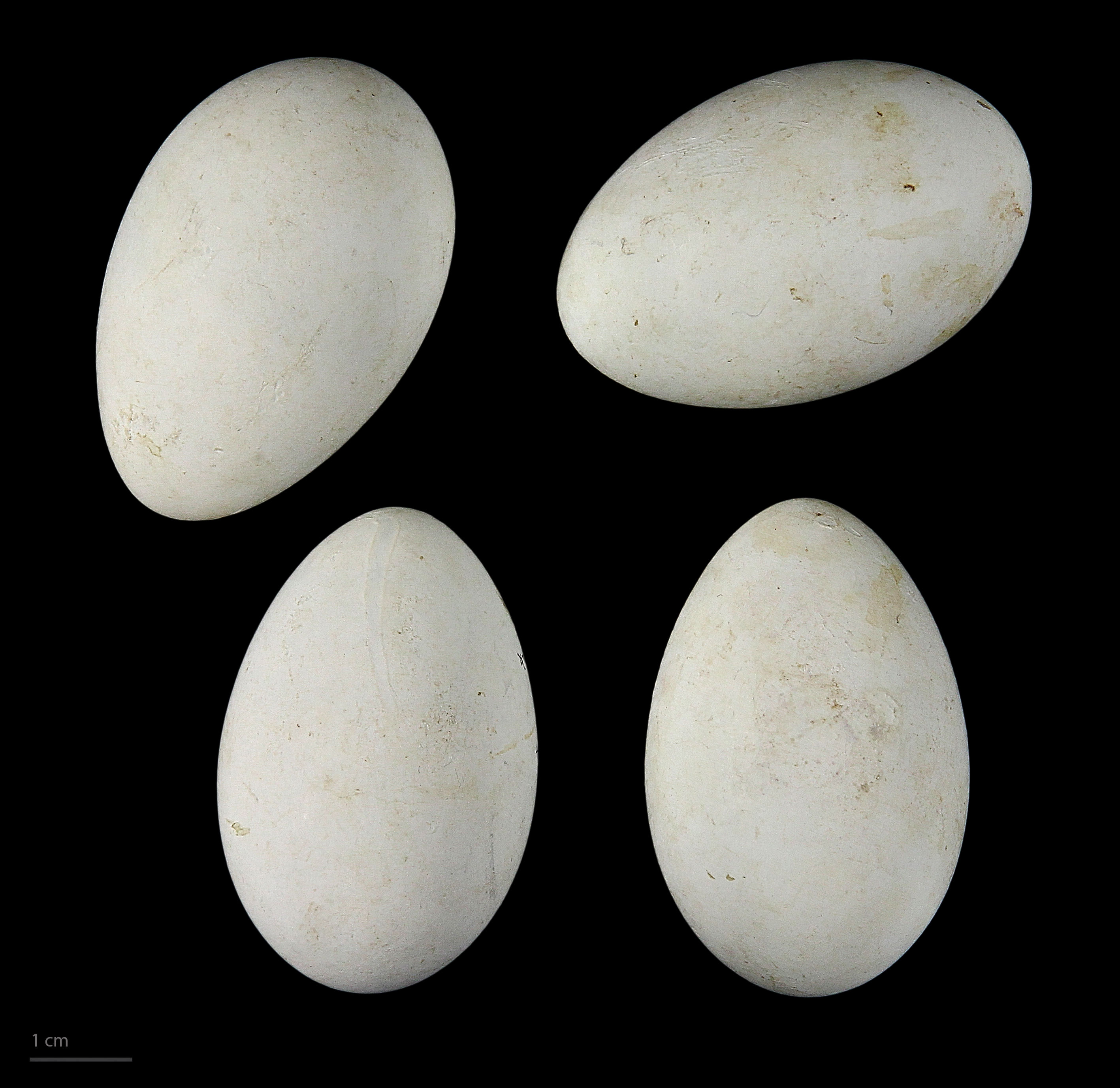 Eggs of reed cormorant Four specimens of the same spawn ; collection of Jacques Perrin de Brichambaut.